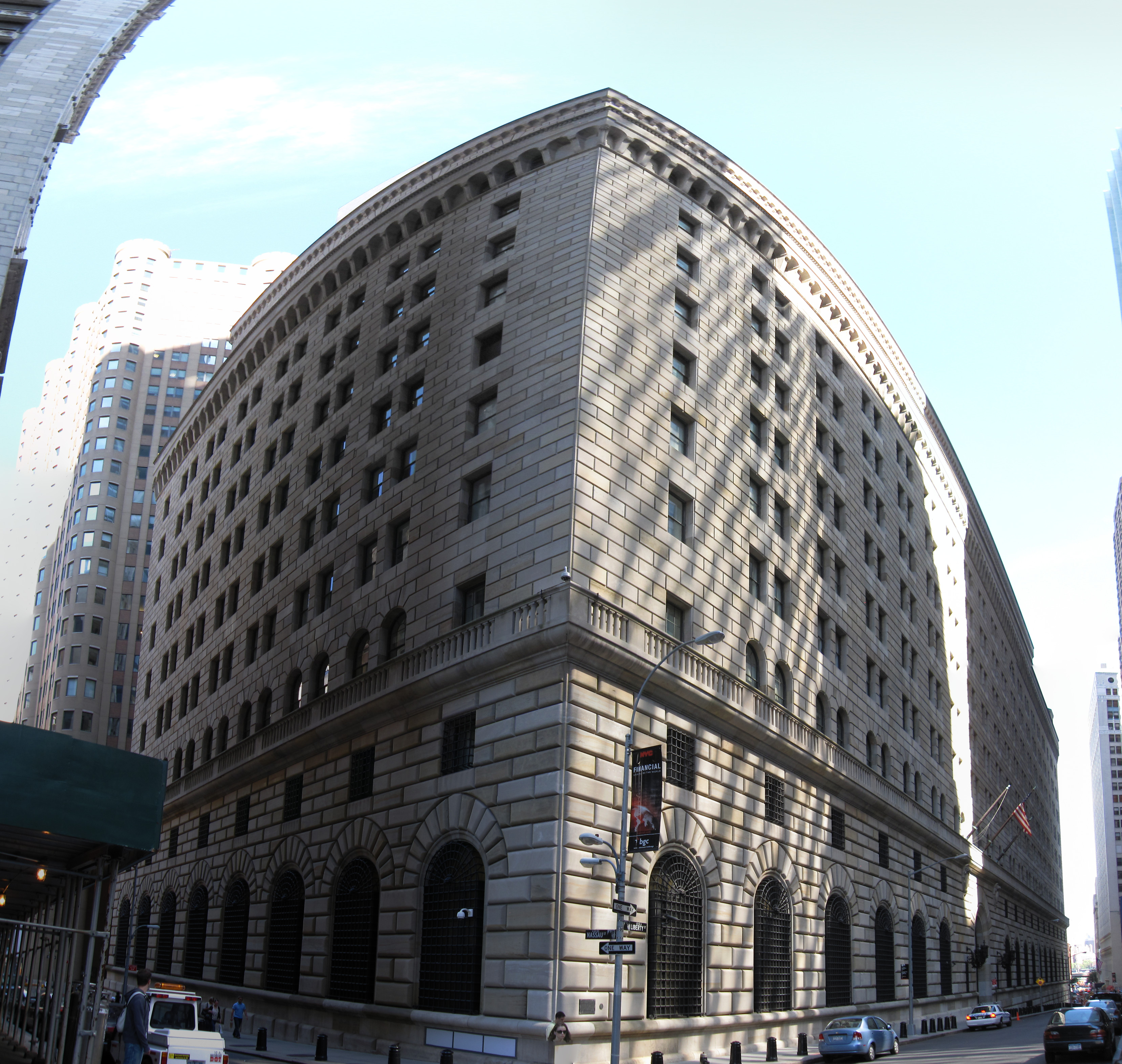 33 Liberty Street